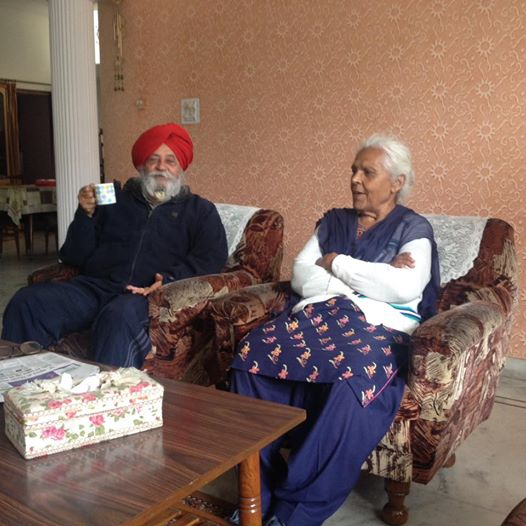 Prof.H.S. Mehta an educationist and a teacher unianist from Punjab, India with his wife Swarnjit Mehta